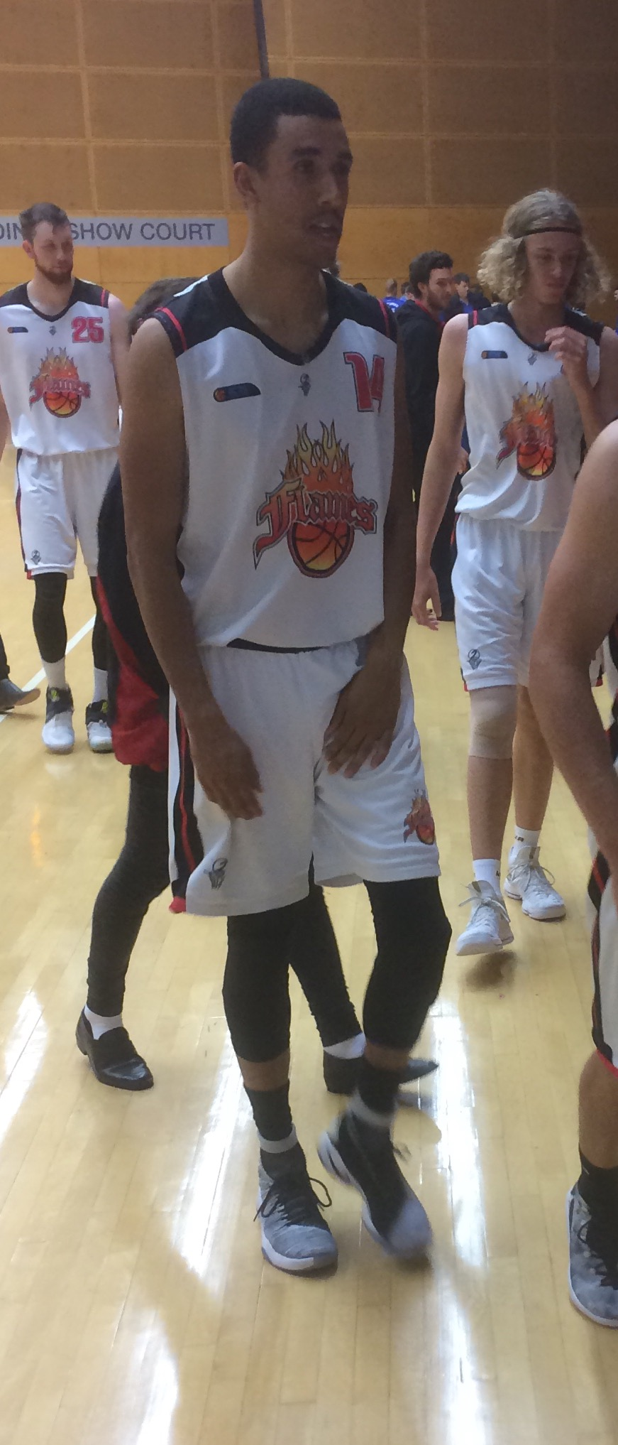 Dexter Kernich-Drew with the Rockingham Flames